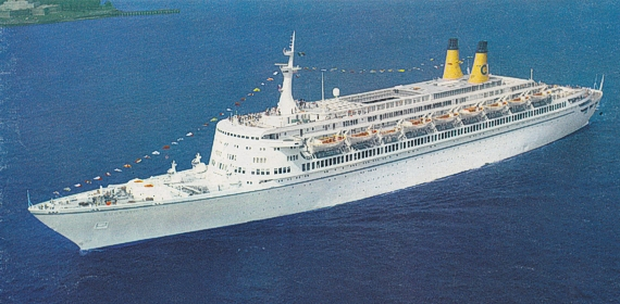 The TN Eugenio C